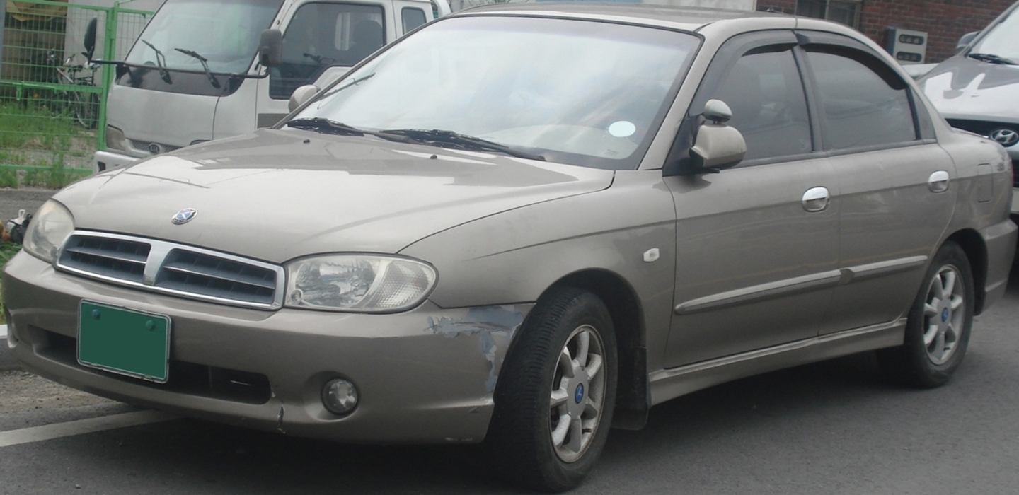 Kia Spectra